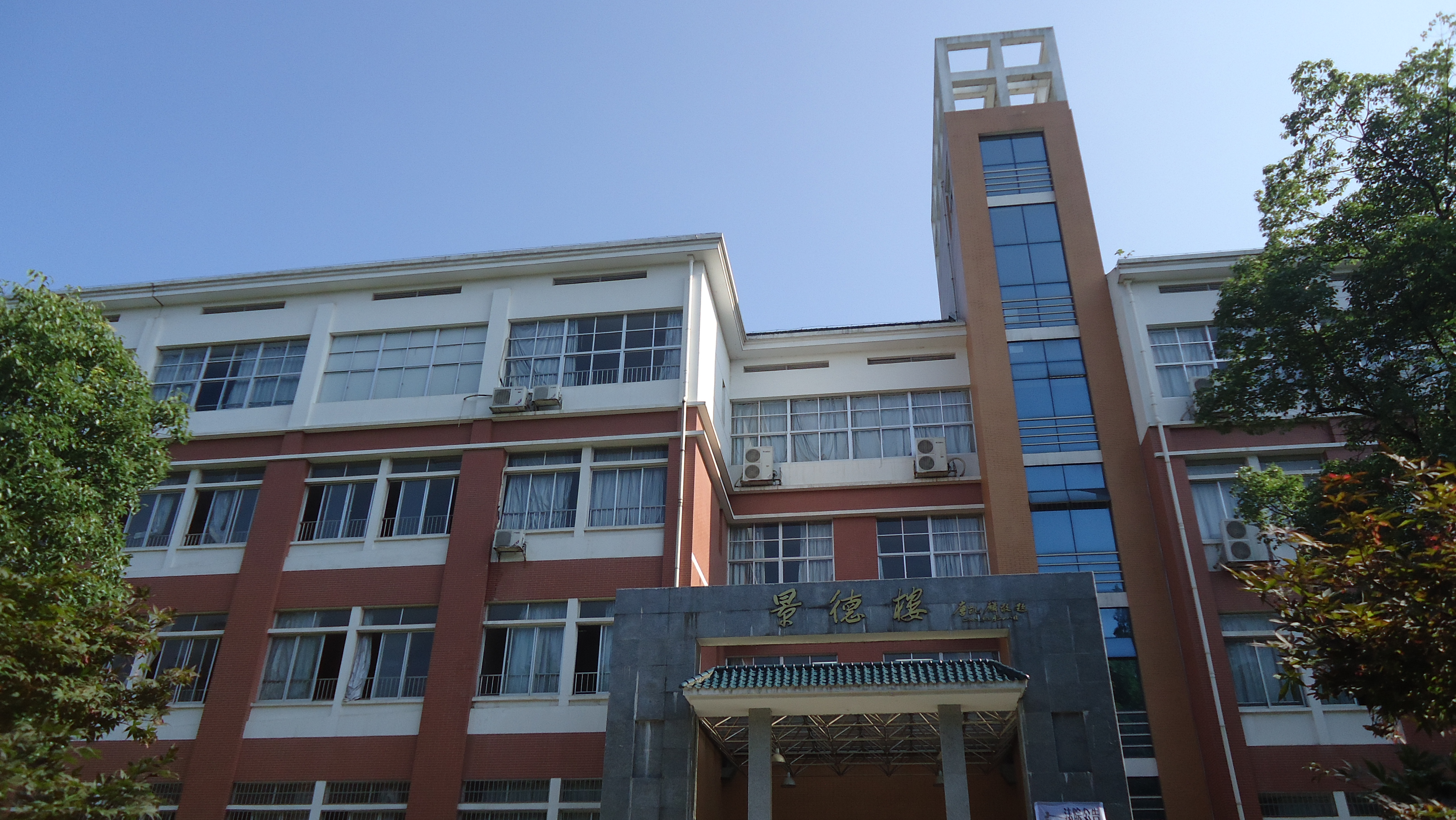 Hunan Normal University,founded in 1938, is a higher education institution located in Changsha, Hunan Province, People's Republic of China. The University is a national 211 Project university, one of the country's 100 key universities in the 21st century that enjoy priority in obtaining national funds.